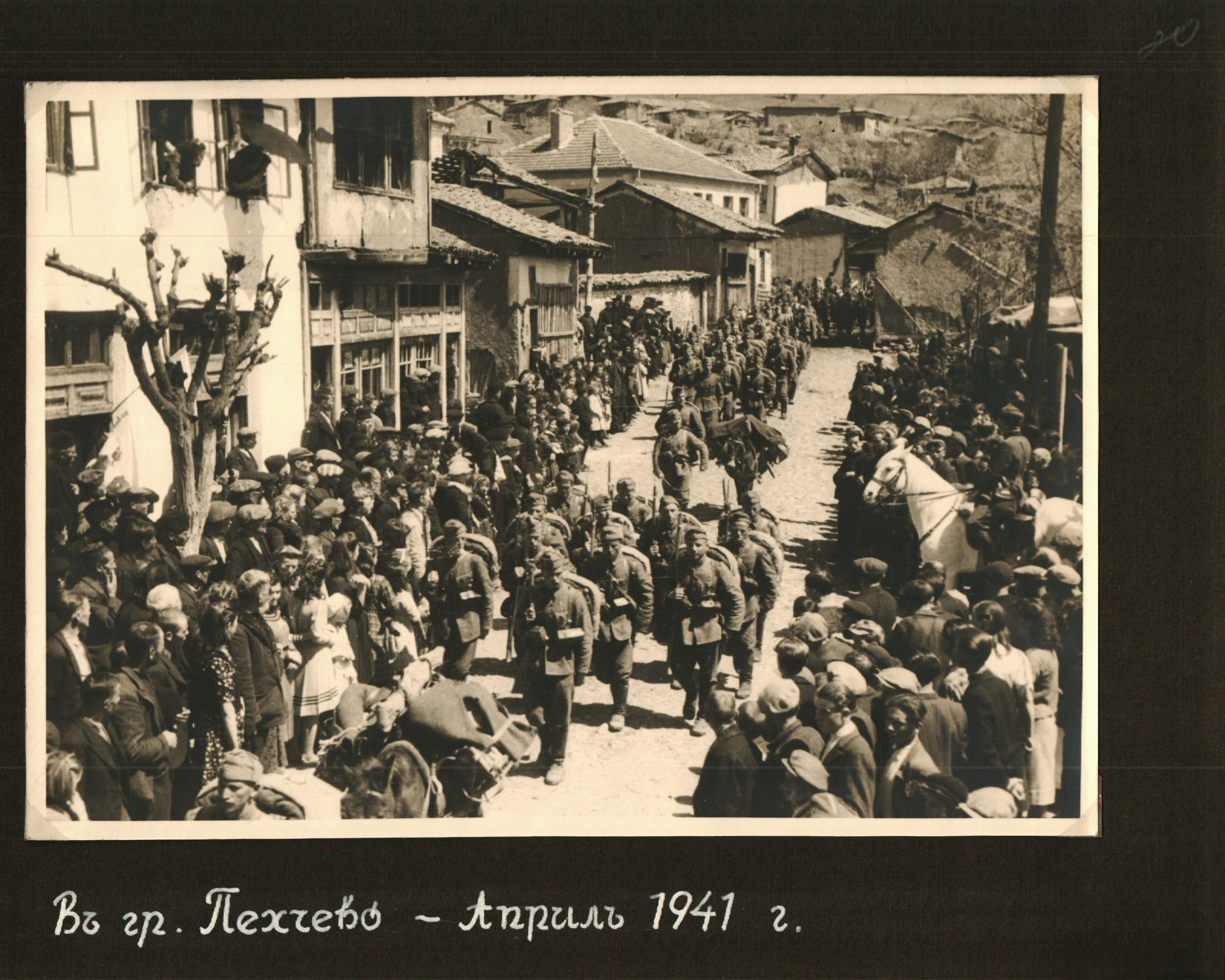 14 Infantry Macedonian Regiment